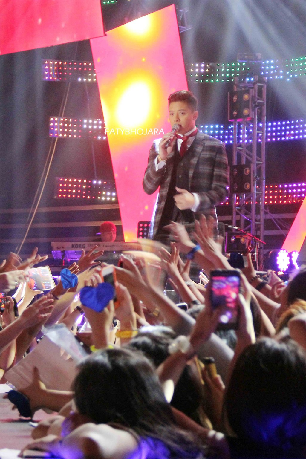 Daniel Padilla during Most Wanted Concert, 2015